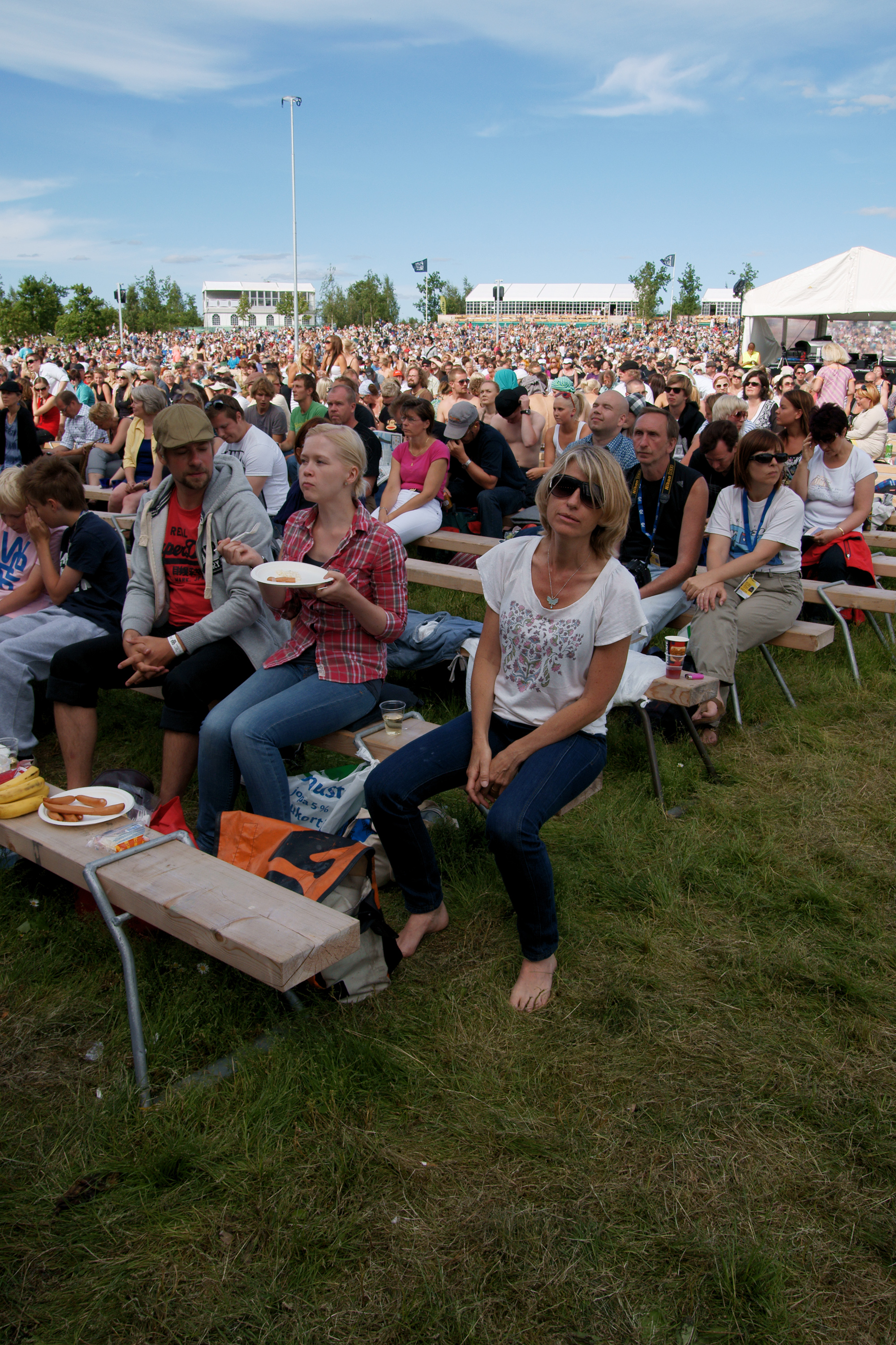 Spectators in Pori Jazz 2010.